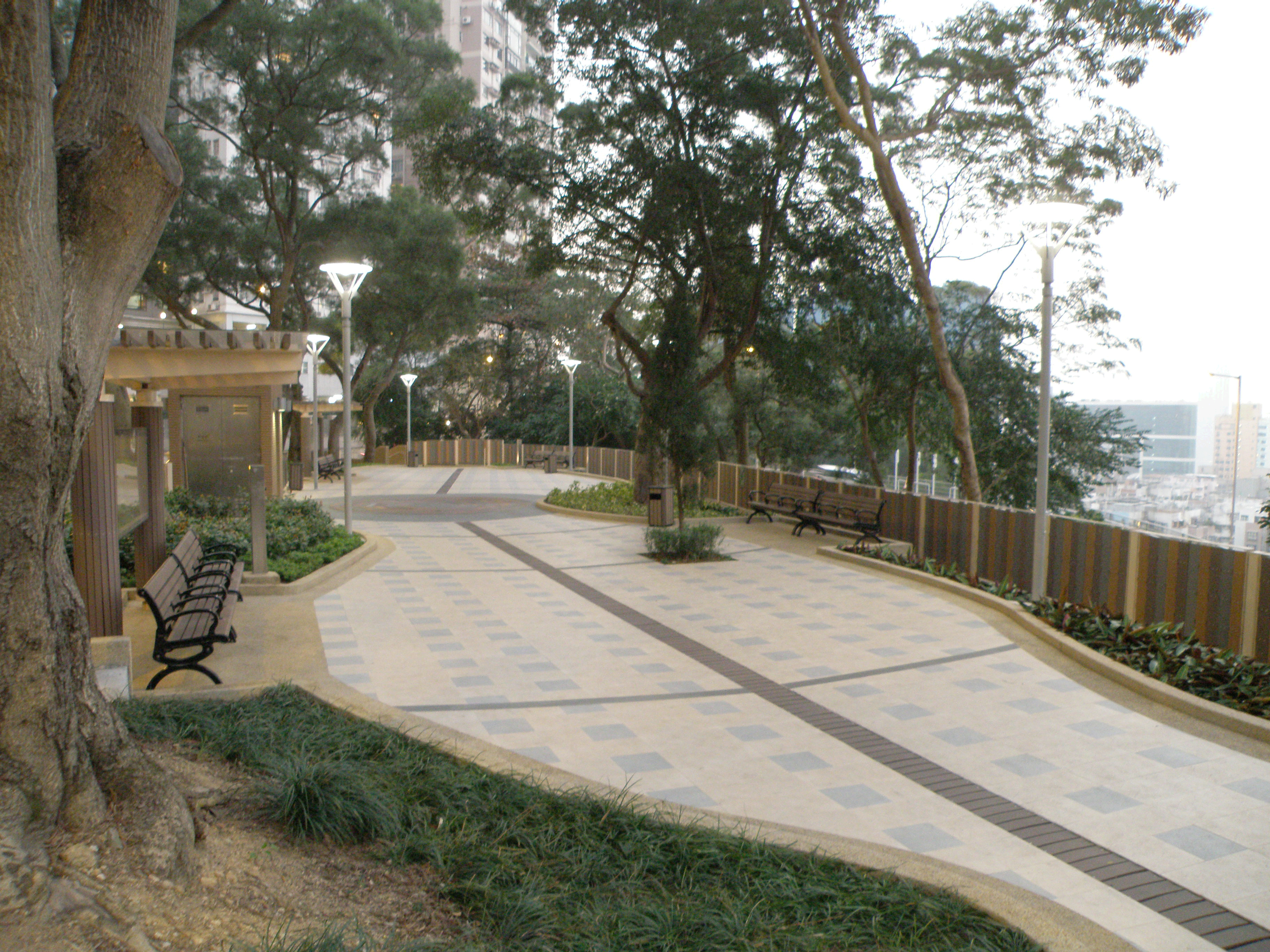 Tin Hau Temple Road Park in Braemar Hill, Hong Kong.